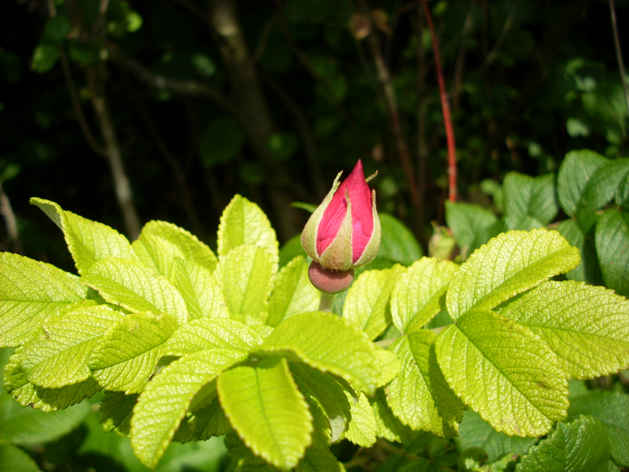 Rosa rugosa, bud, picture taken in south Sweden